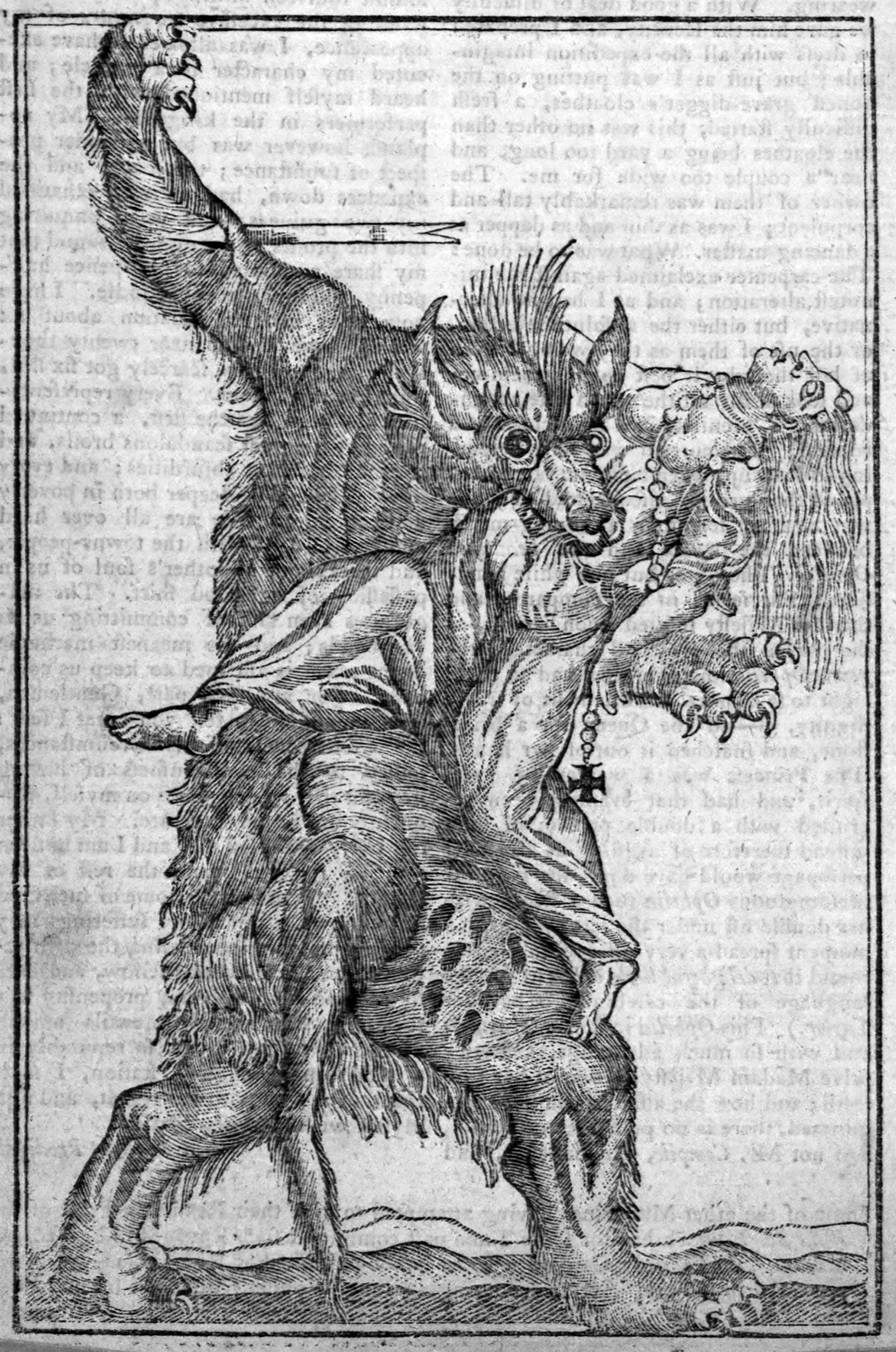 A werewolf devouring a woman. From a XIX c. engraving. From the Mansell Collection, London.